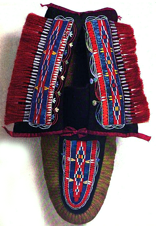 Caption from source reads: A Huron Indian Moccassin.